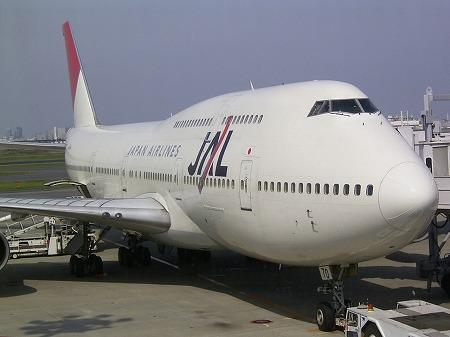 Author of the file.